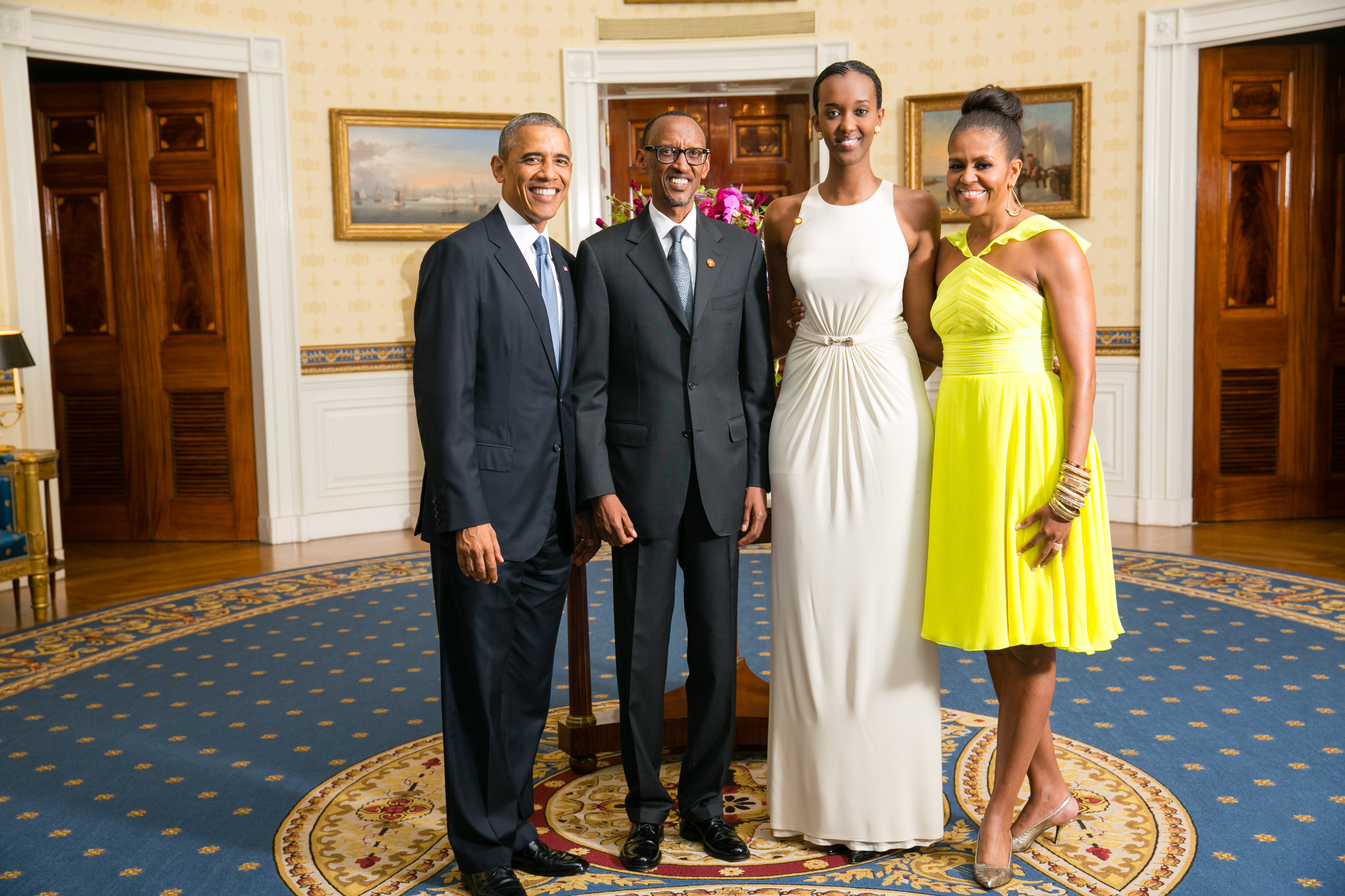 President Barack Obama and First Lady Michelle Obama greet His Excellency Paul Kagame, President of the Republic of Rwanda, and his daughter, in the Blue Room during a U.S.-Africa Leaders Summit dinner at the White House, Aug. 5, 2014. [Official White House Photo by Amanda Lucidon/ This official White House photograph is in the public domain from a copyright perspective, so while restrictions such as personality or privacy rights may apply, in general, manipulations are allowed.]